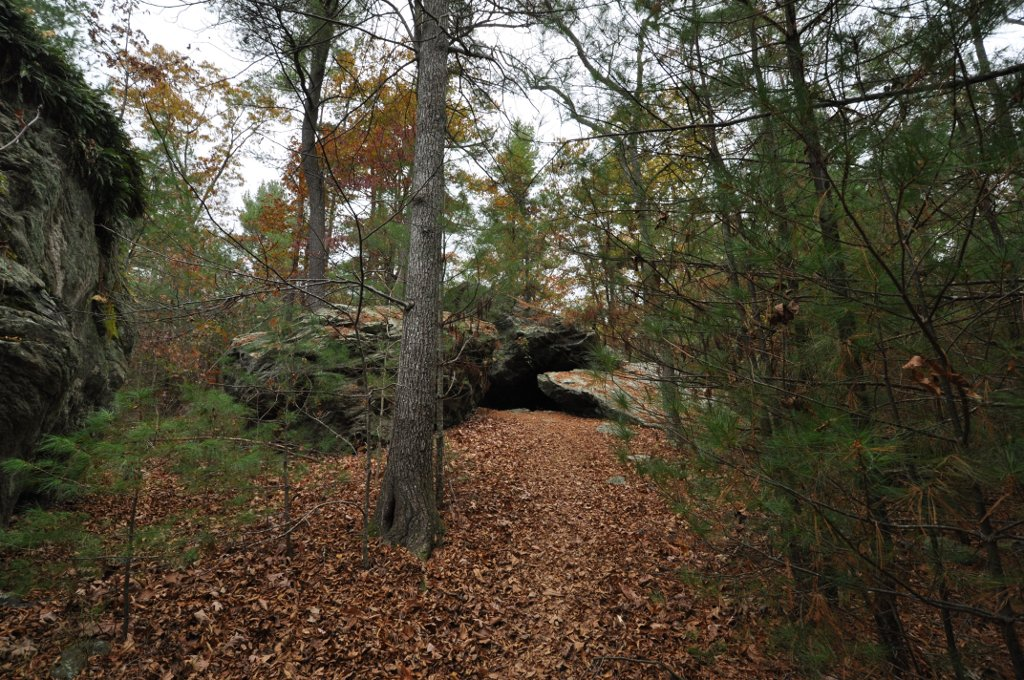 Cave in which Metacom aka "King Philip" is said to have hidden in Norton, Massachusetts, during King Philip's War.